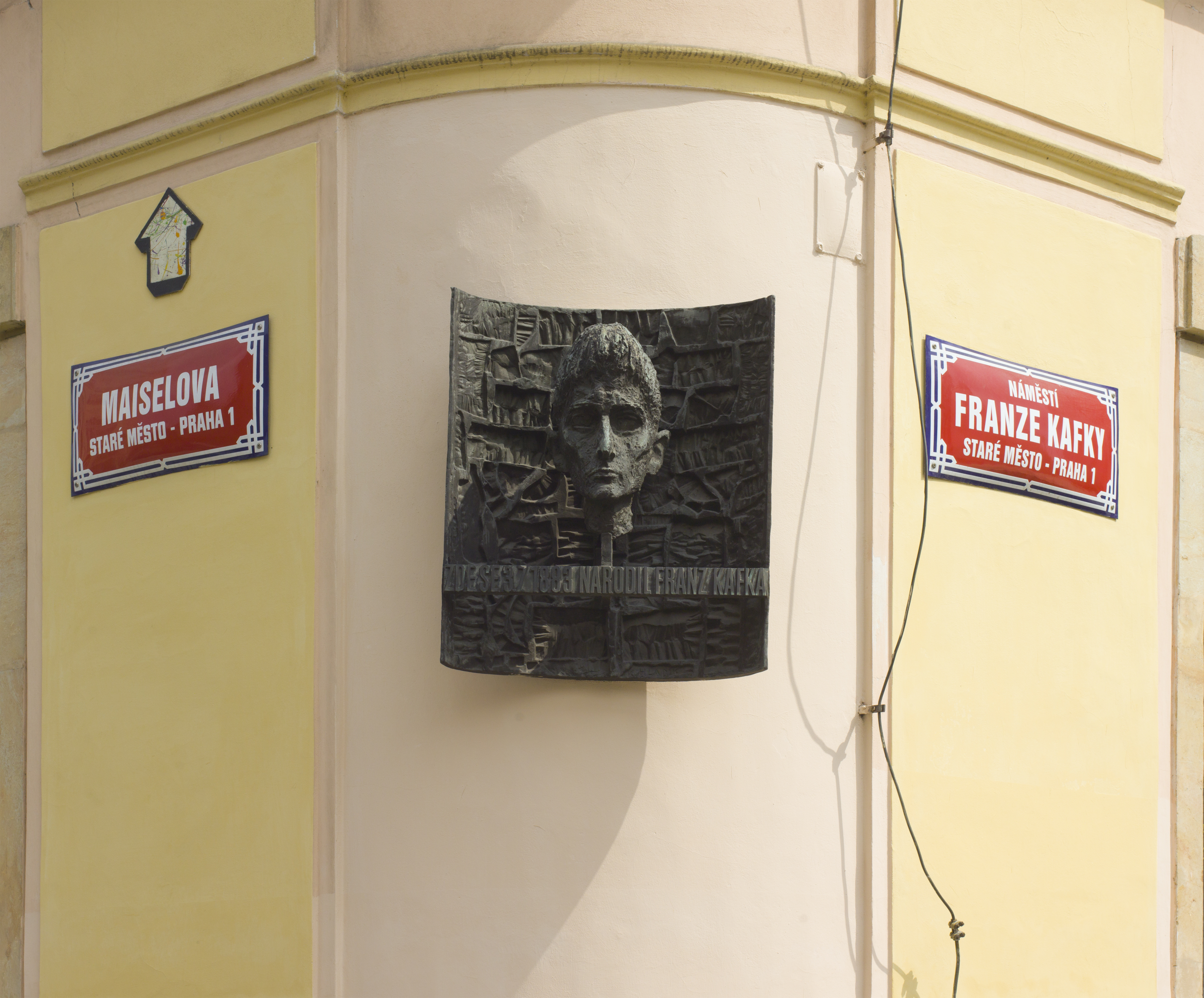 Plaque commemorating the birthplace of Franz Kafka in Prague